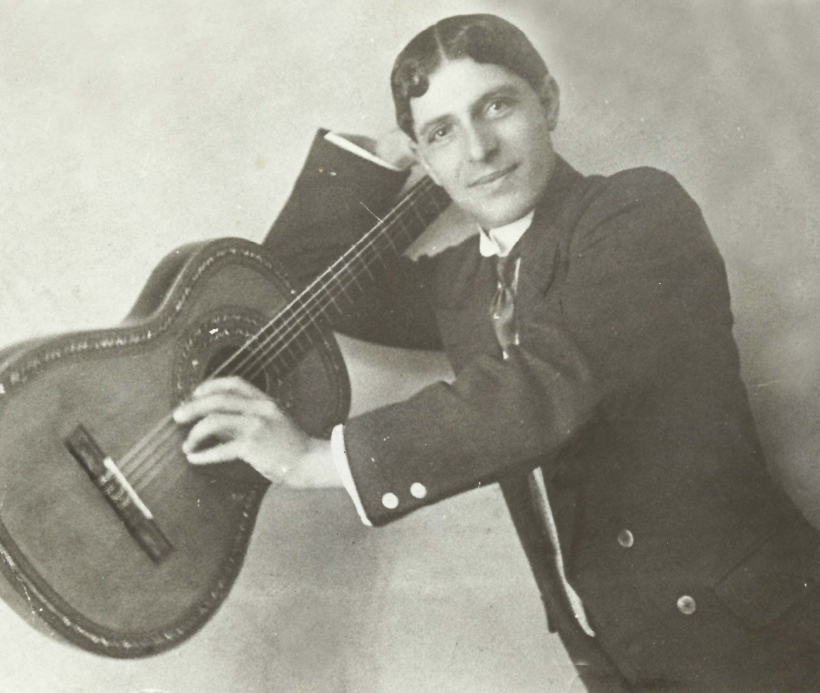 The young Américo Jacomino in 1910s